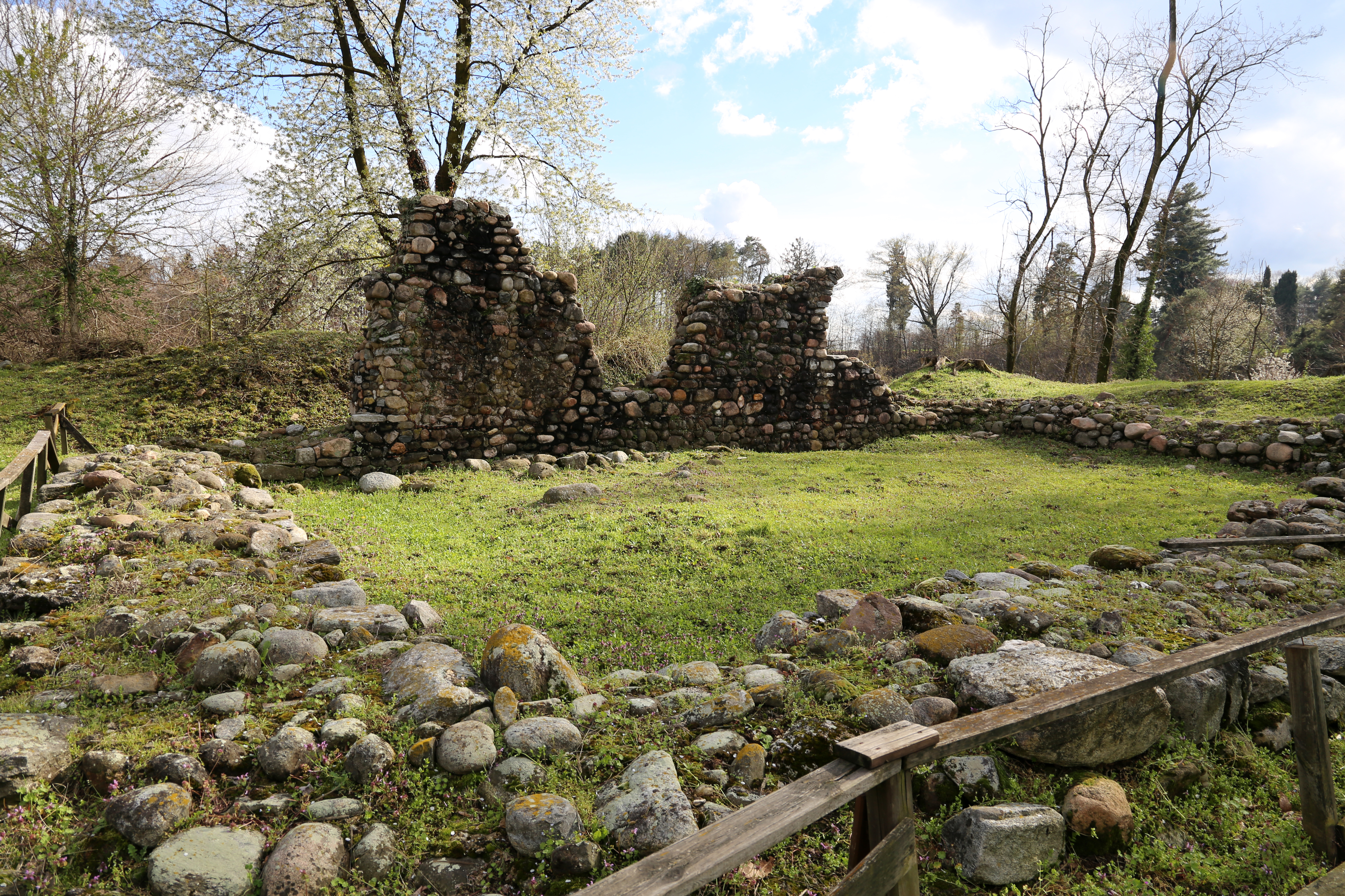 Castrum in Castelseprio